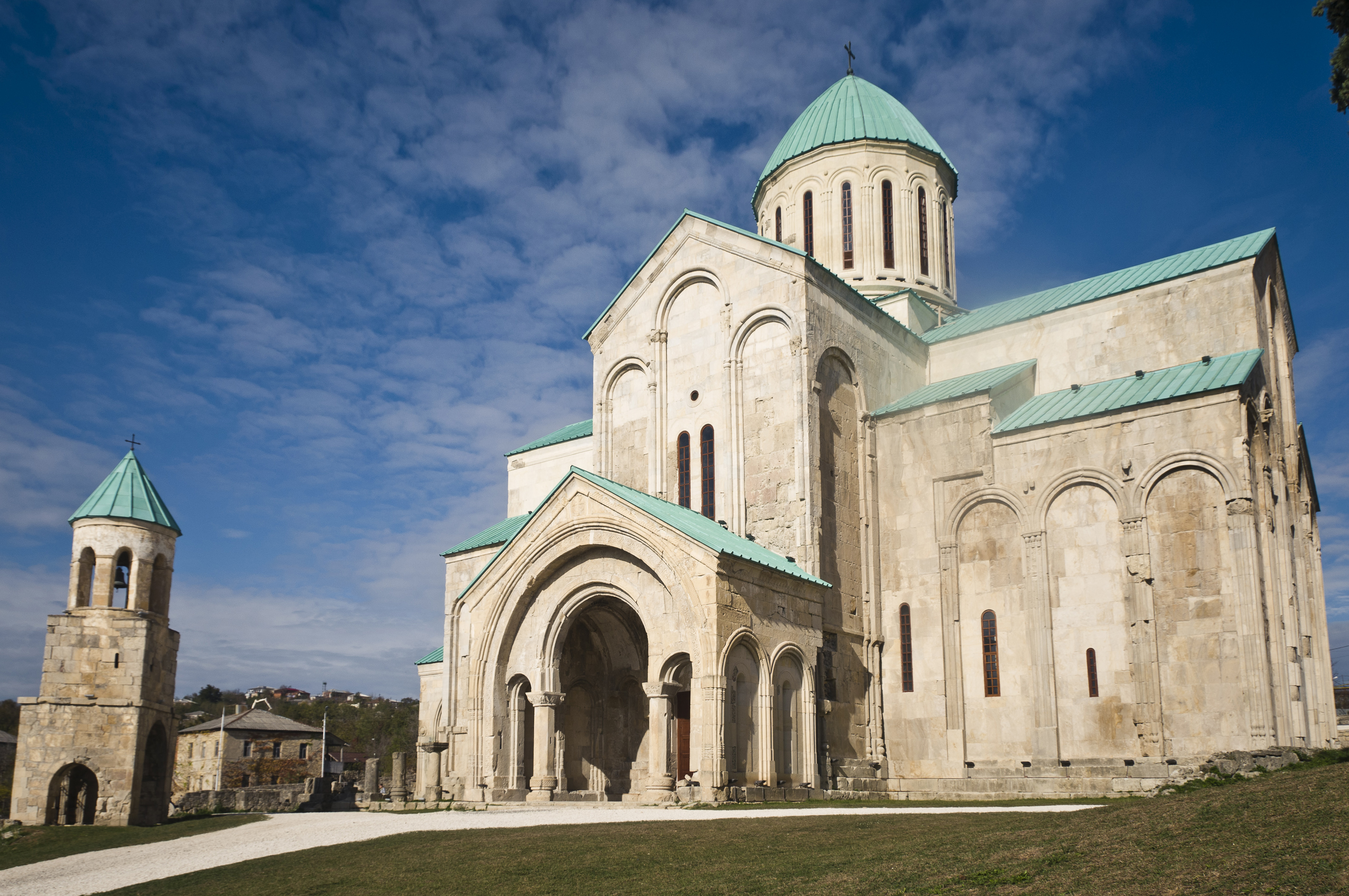 Travel website